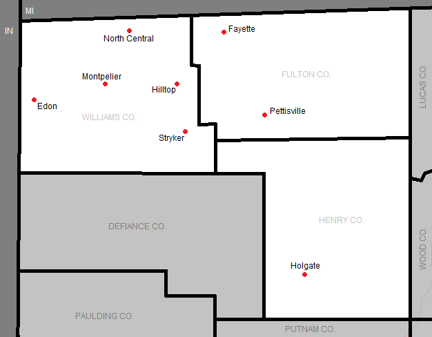 County outlines made by the US Census. Modified by myself to show the school locations.